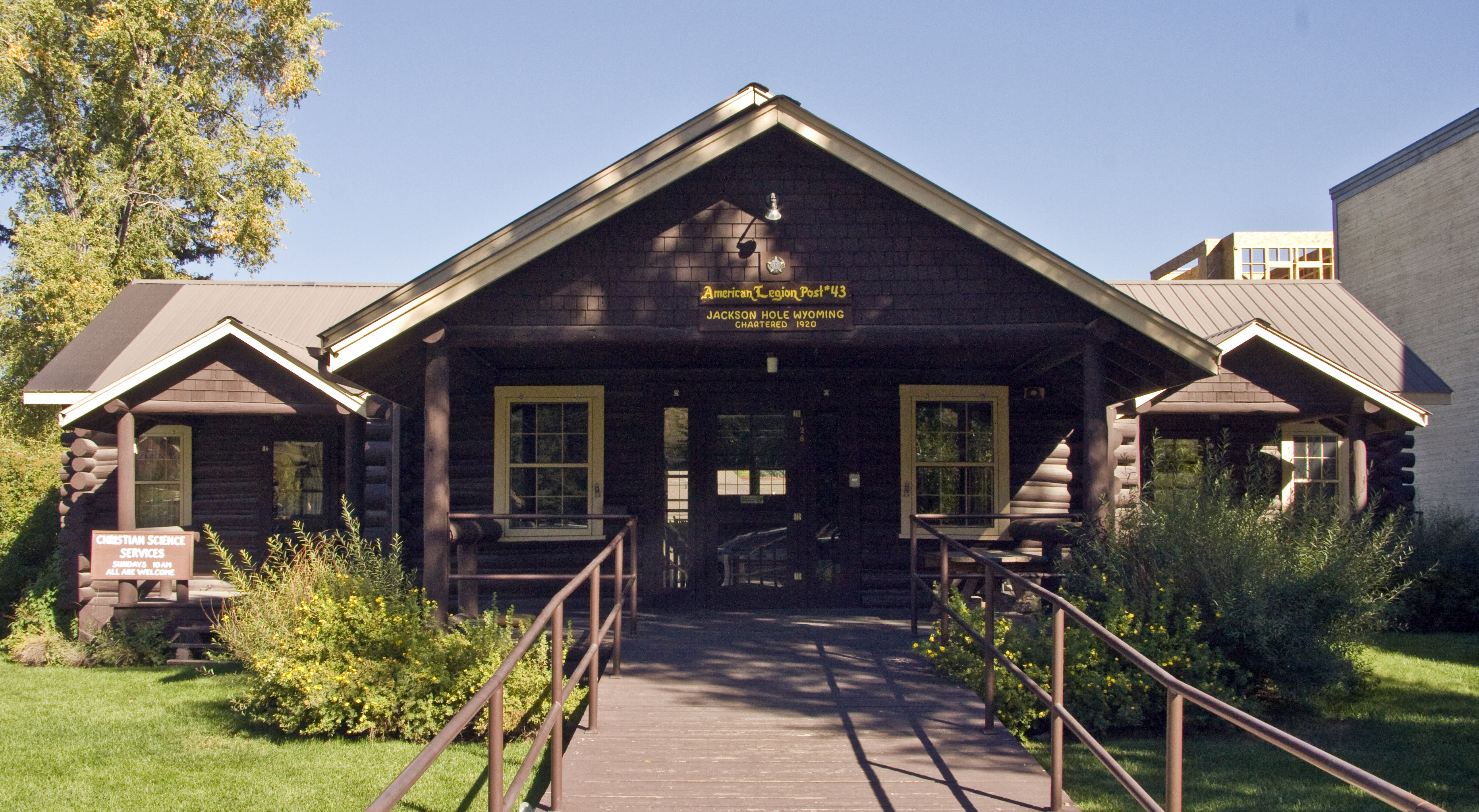 American Legion Hall, Jackson, Wyoming, USA. Listed on the National Register of Historic Places.